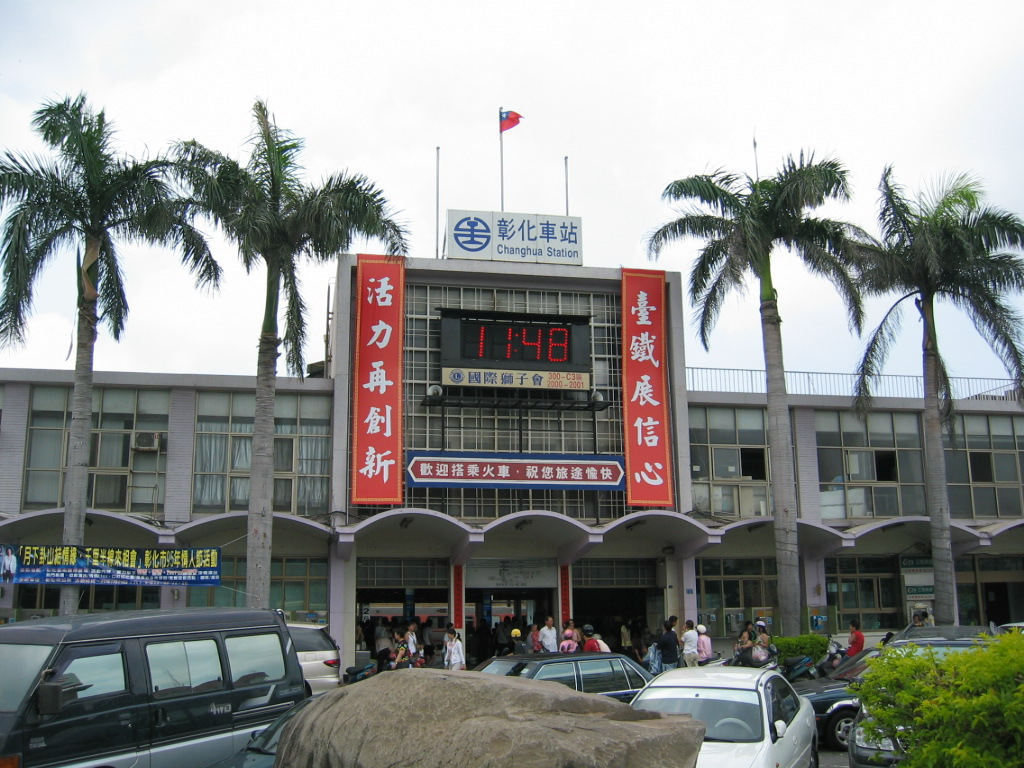 TRA Changhua Station.中文（台灣）: 臺灣鐵路管理局彰化車站。